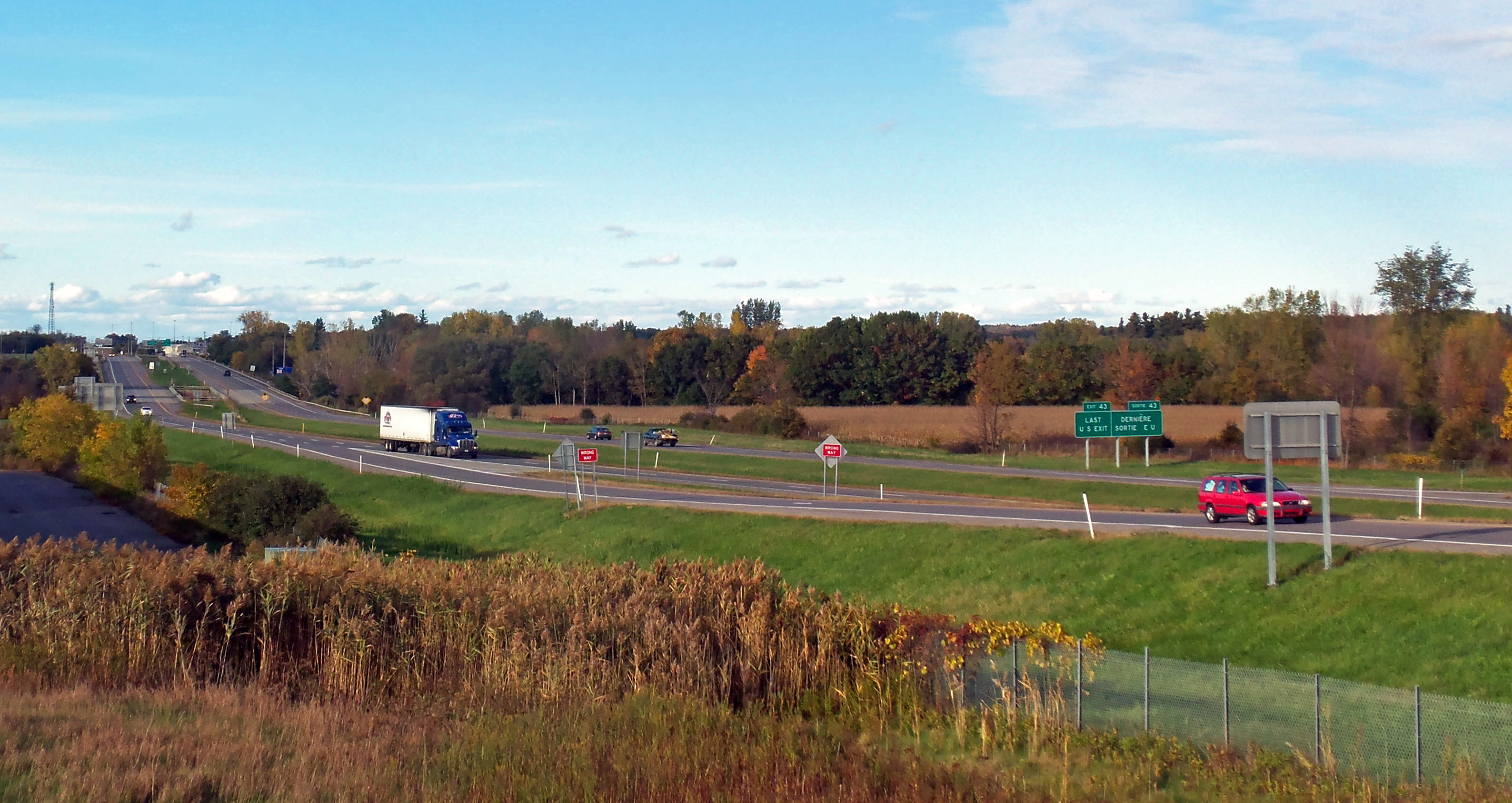 Northernmost section of Interstate 87 near Champlain, NY, USA, seen from parking lot of convenience store at US 11, penultimate exit. Note exit sign in French and English; Canadian border facilities are located below antenna at left.